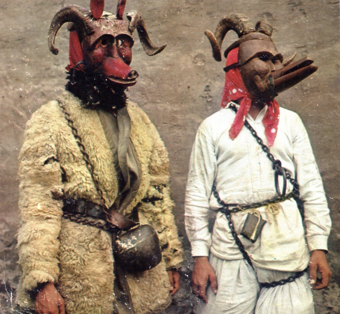 Rugăciori and legători of Romania, "calending" in the "Capra" tradition.